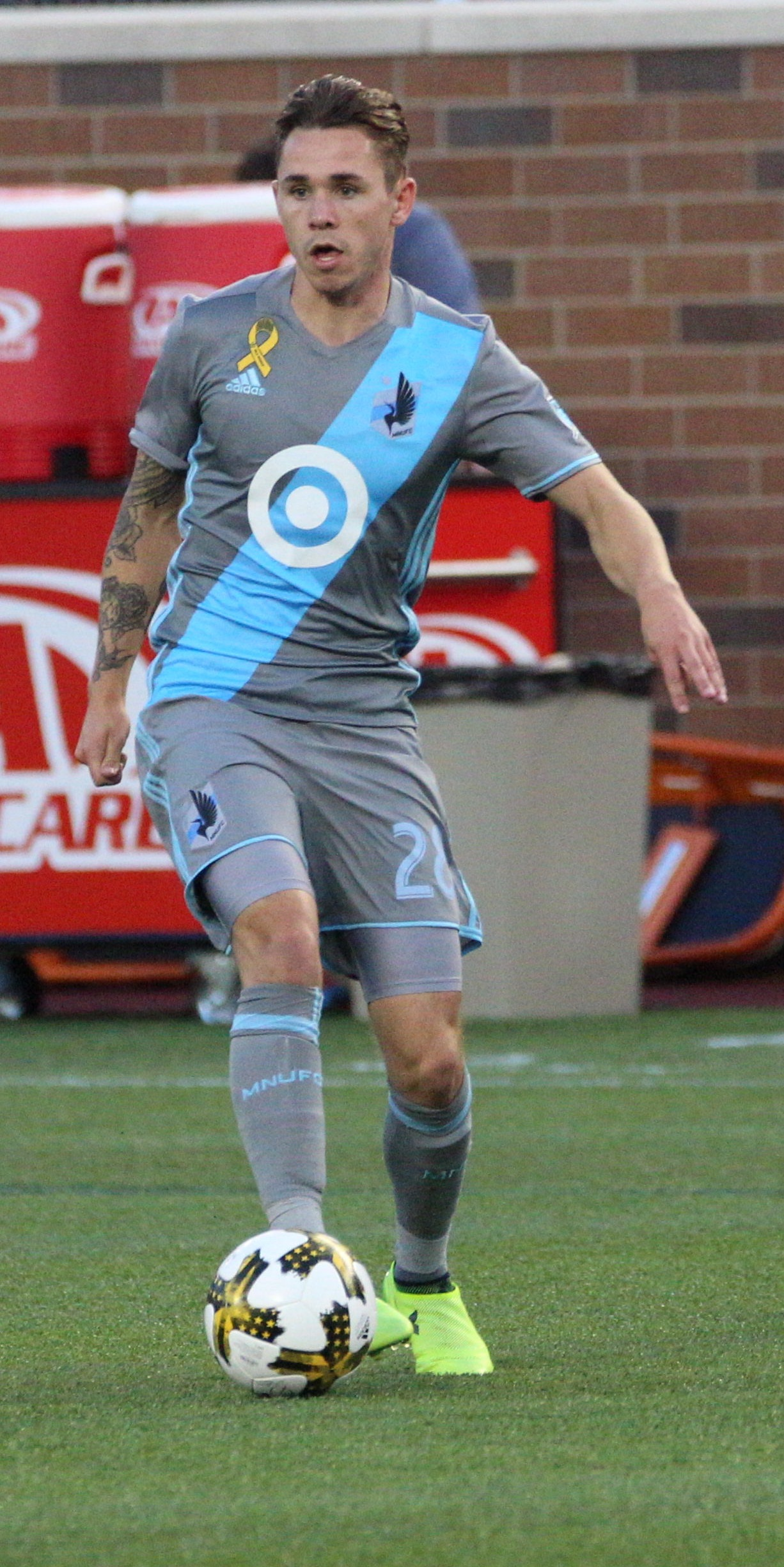 Philadelphia Union - Minnesota UNITED - MLS - Soccer